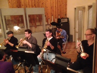 l-r Jim Seeley, Nick Marchione, John Walsh and Scott Wendholt as the trumpet section for the Mists: Charles Ives for Jazz Orchestra CD recorded on April 4th, 2014 in Brooklyn NY at Systems II Recording Studio